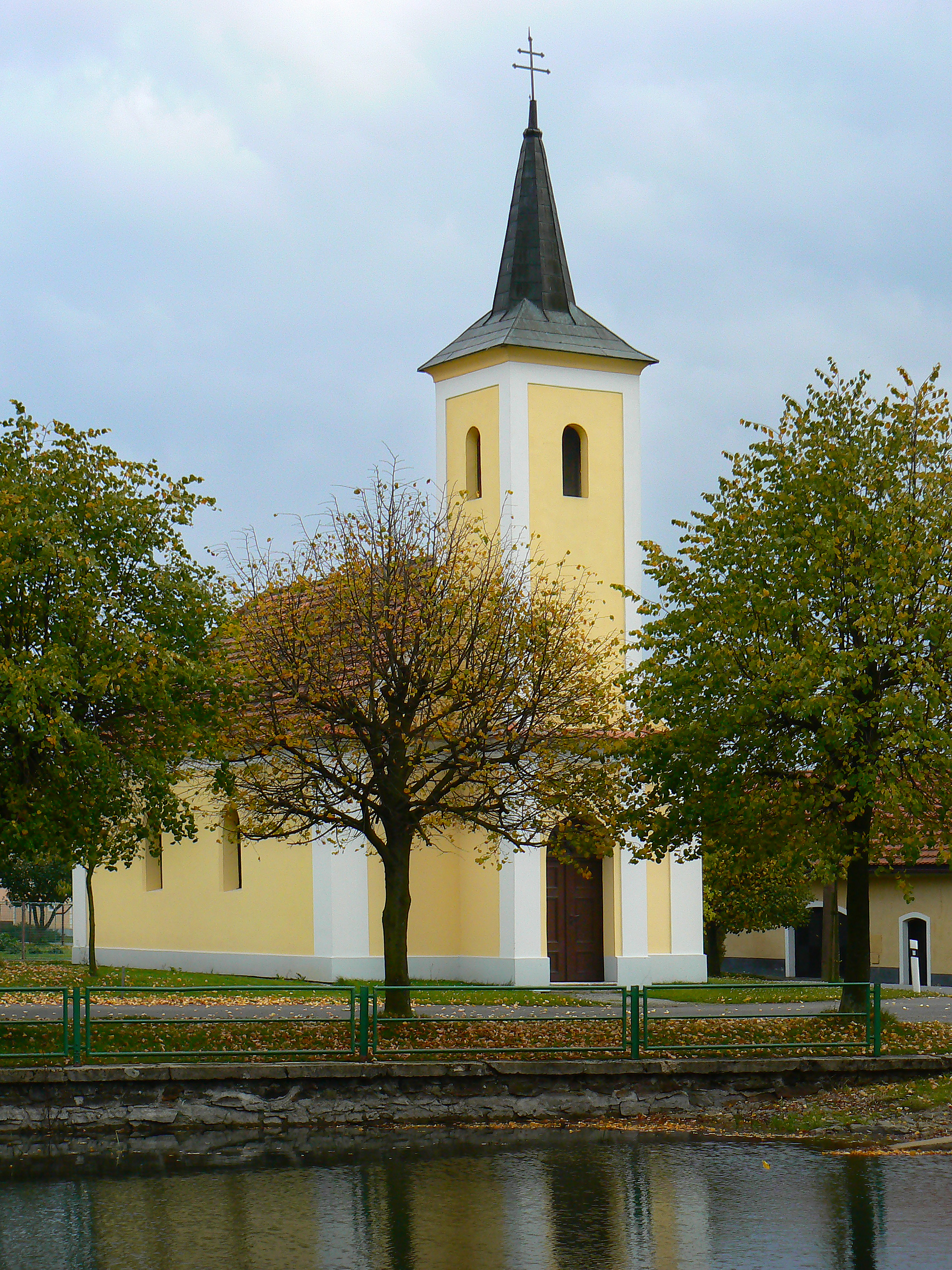 Chapel behind the village green pond in Komárov, Tábor district, Czech Republic, autumn